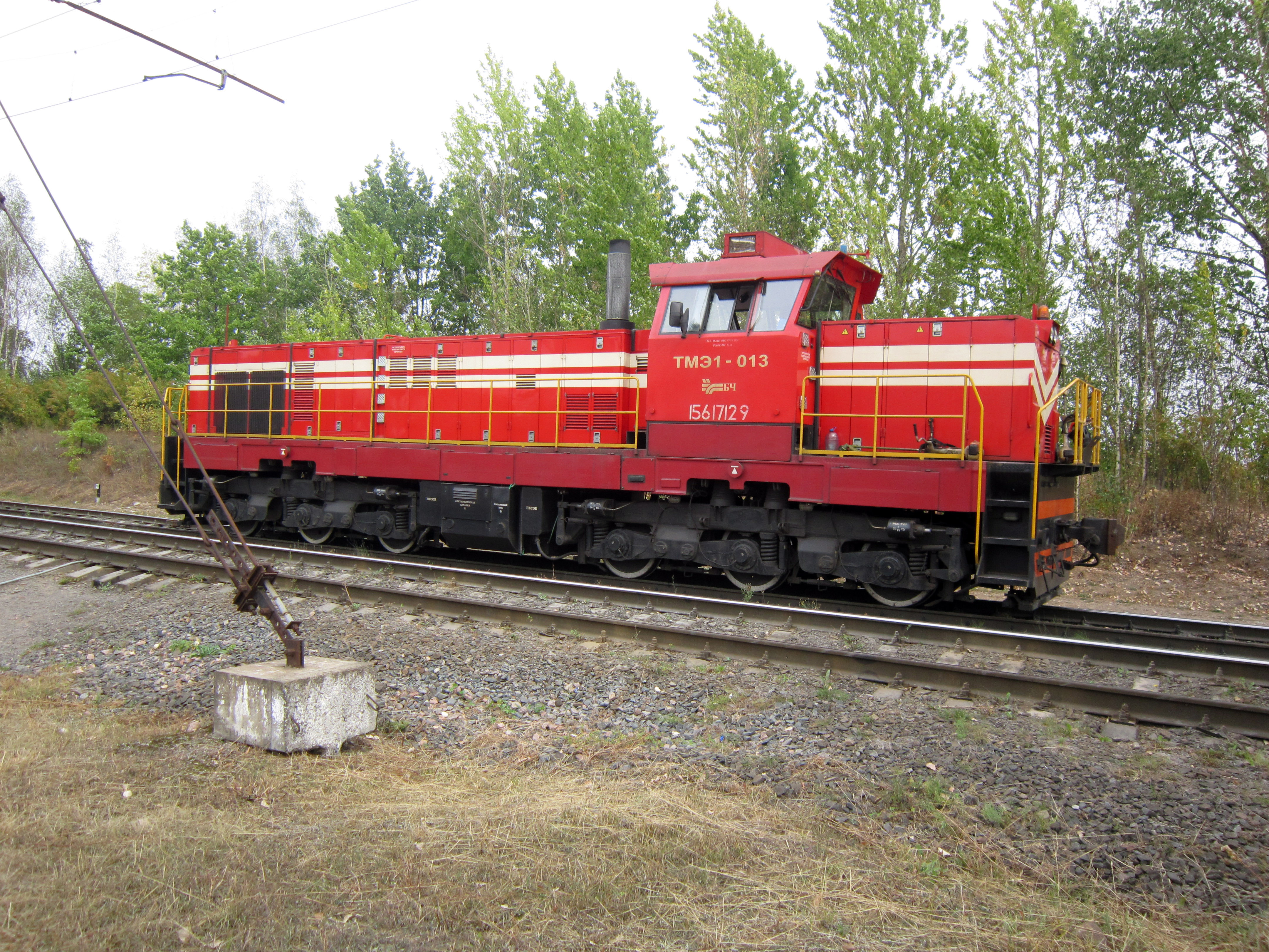 Diesel locomotive TME1-013 of the Belarusian Railroads in the Šabany station